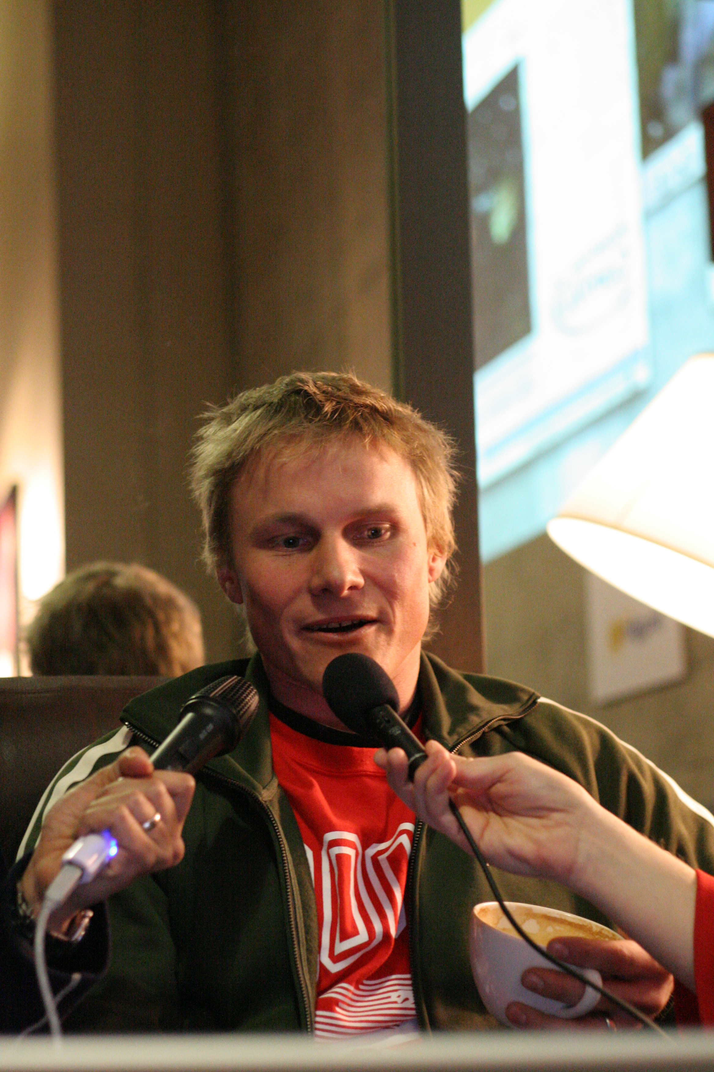 Ross Rebagliati, 1998 Olympic champion in snowboard's giant slalom